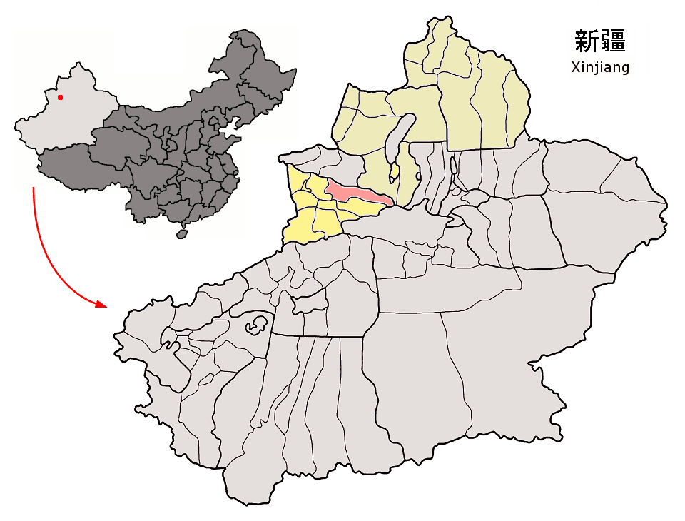 Location of Nilka County (pink) and Ili Prefecture (yellow: subdivisions under direct administration of Ili Prefecture, ecru: subdivisions under administration of Tacheng and Altay Prefectures) within Xinjiang autonomous region of China Map drawn in september 2007 using various sources, mainly : Xinjiang Uygur autonomous region administrative regions GIS data: 1:1M, County level, 1990 Xinjiang Counties map from